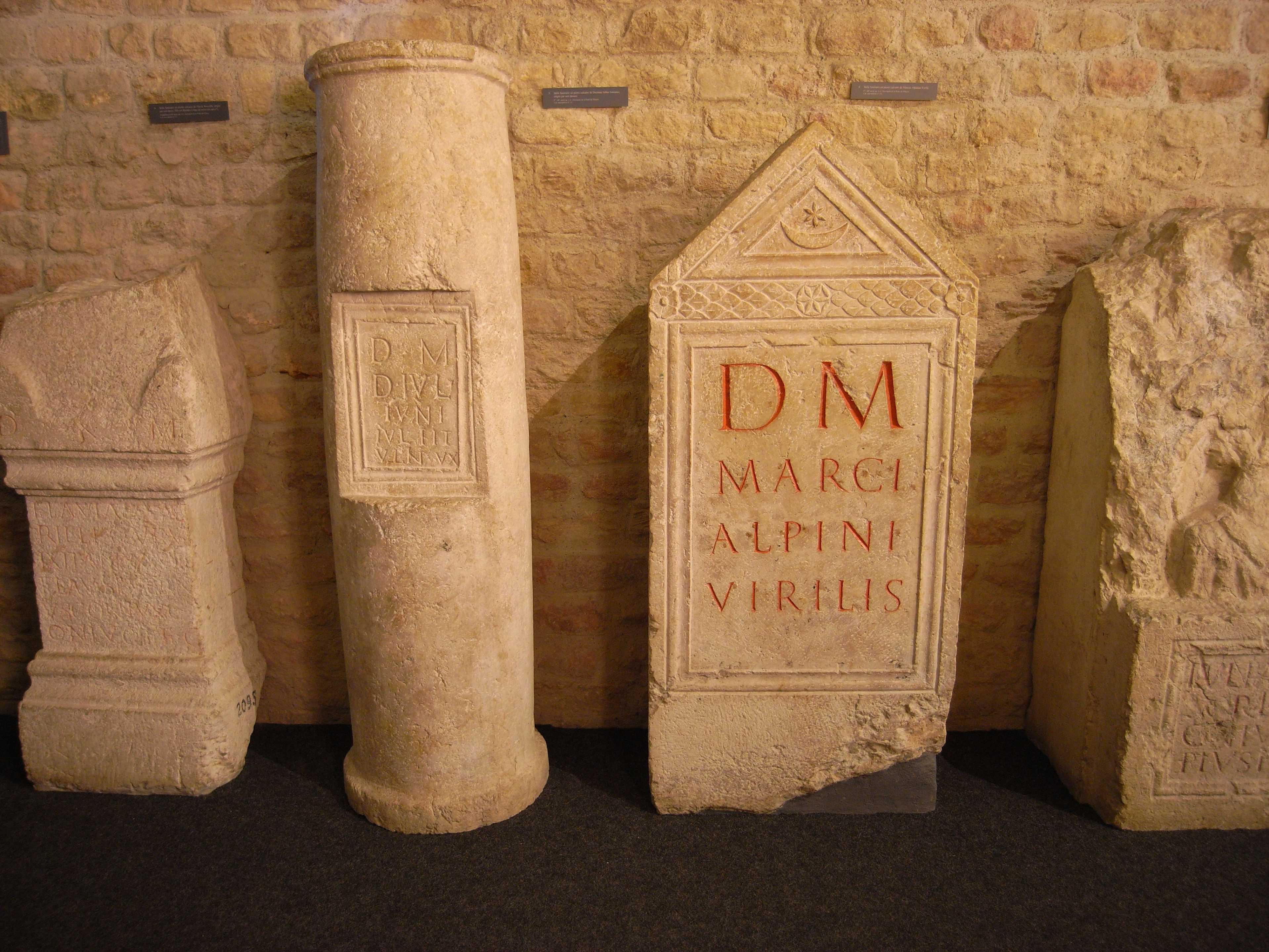 jurassic limestone objects (Gallo-Roman culture) Roman museum of Avenches/VD